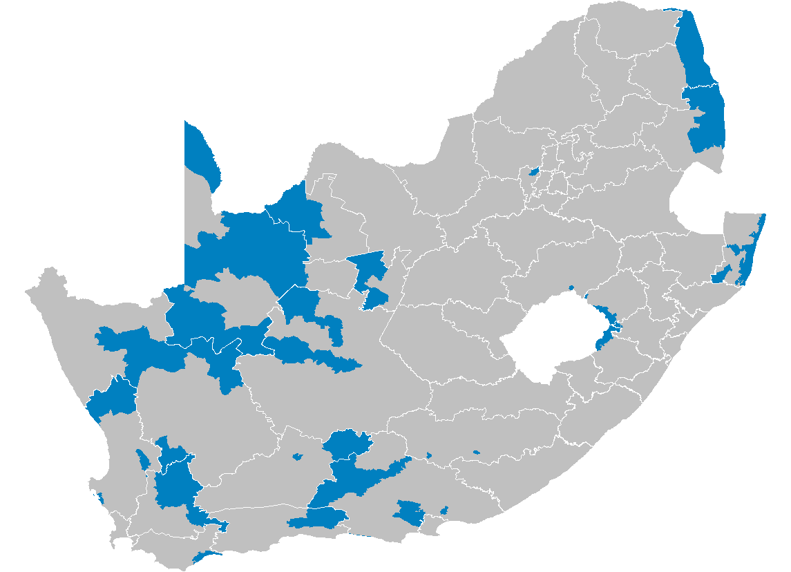 Map showing the District Management Areas in South Africa, so-called category C municipalities; areas, including national parks, that are too thinly populated to form viable municipalities, and in stead awarded seats in the Council of DMA's.